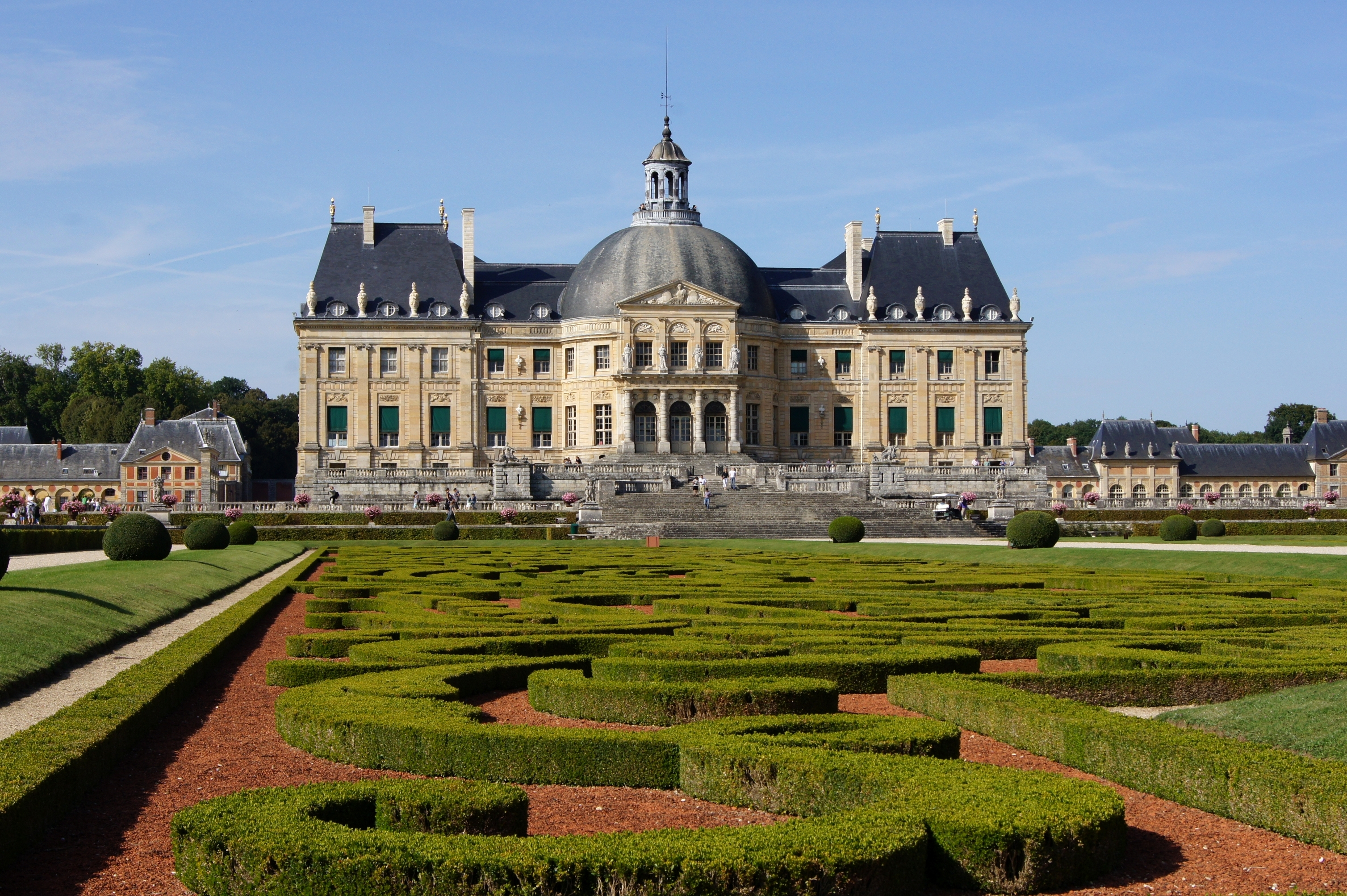 The castle of Vaux-le-Vicomte, with parterre garden, Seine-et-Marne, France.